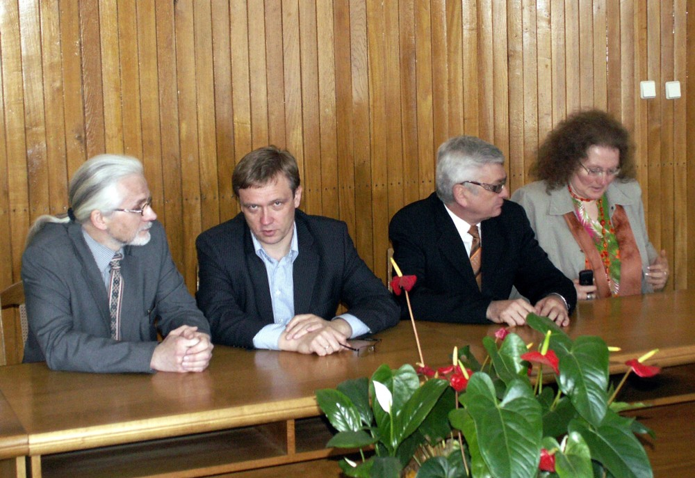 Members of Šiaulių sąjūdis Virgilijus Kačinskas, Zigmas Vaišvila, Algirdas Urbanavičius, Irena Vasinauskaitė in 2008